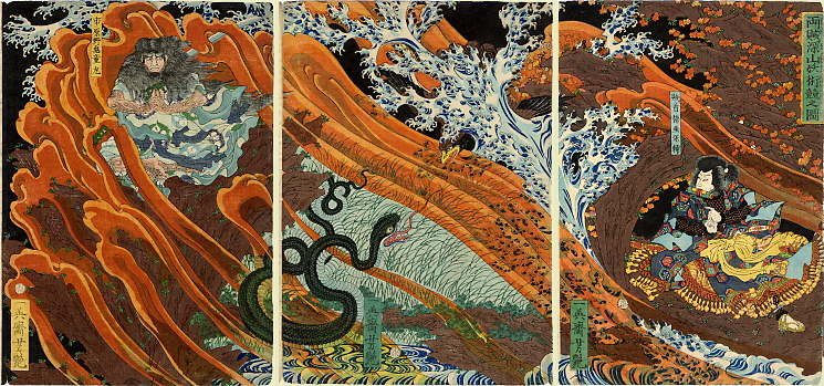 The Battle of Magic, Triptych, 29" by 14". The print depicts a battle of magic between the bandit chief Hakamadare no Mochisuke (transformed into a bird of prey) and Ichihara no Kido-maru (transformed into a giant serpent).